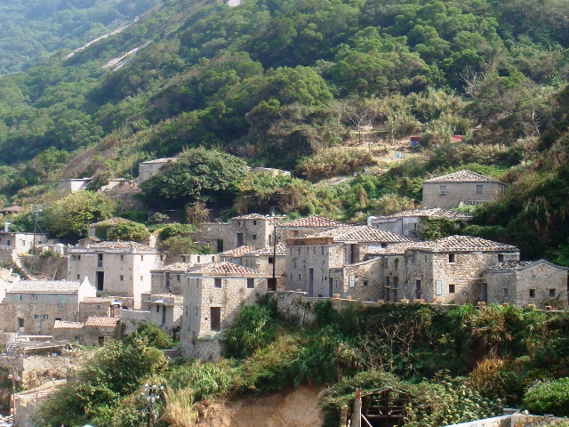 The traditional houses in Qinbi Village, Matsu Islands